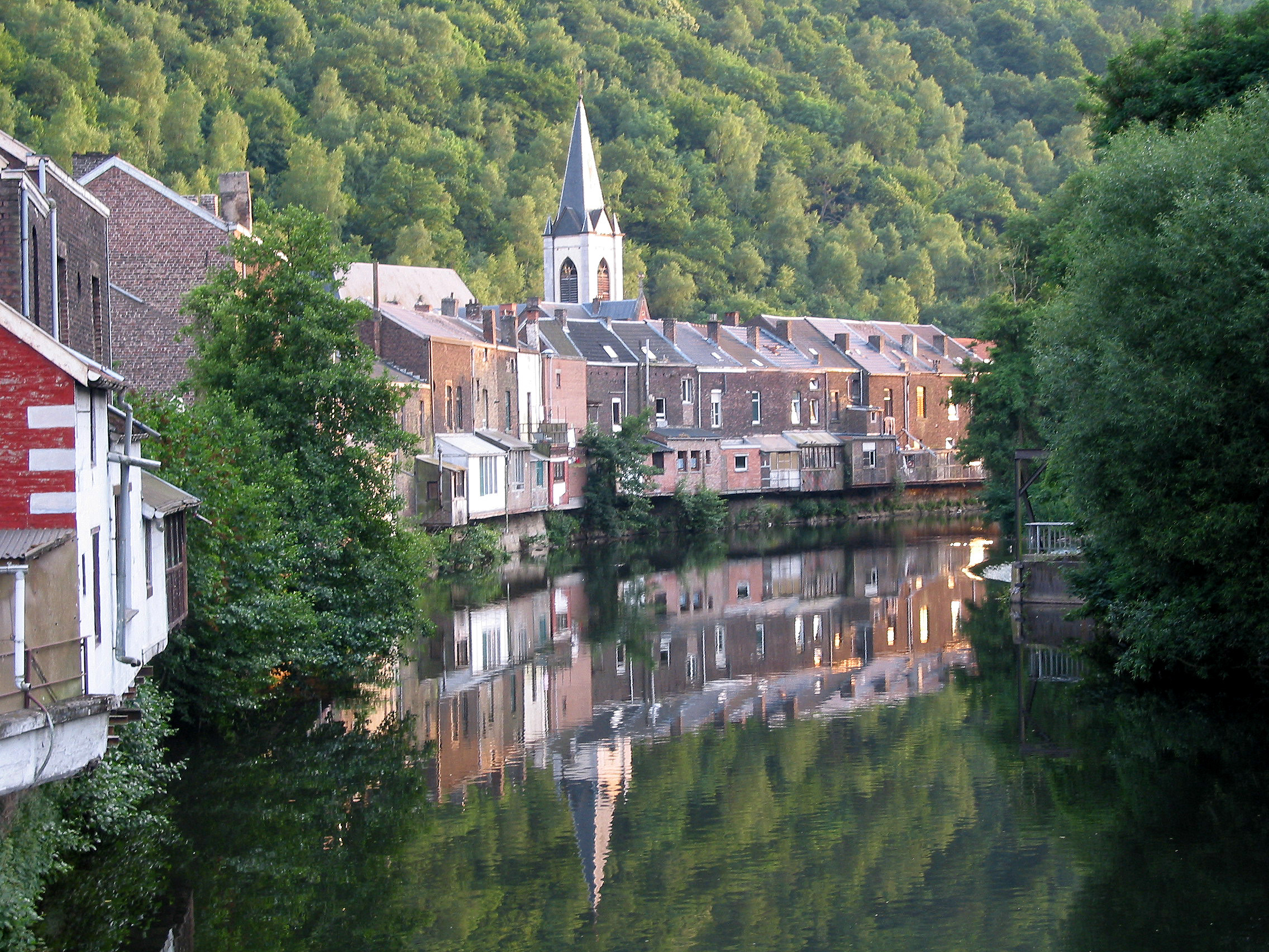 Chaudfontaine (Belgium), reflected image of the Chaudfontaine village in the Vesdre river.